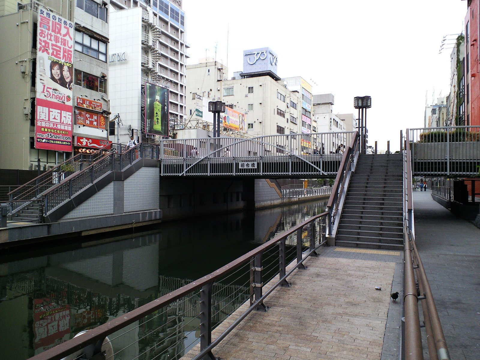 Aiaubashi (Bridge), Chuo-ku, Osaka